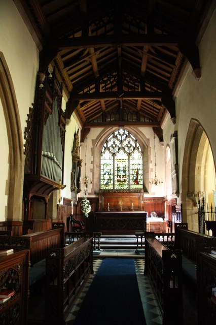 All Hallows chancel Early English chancel much restored in 1898